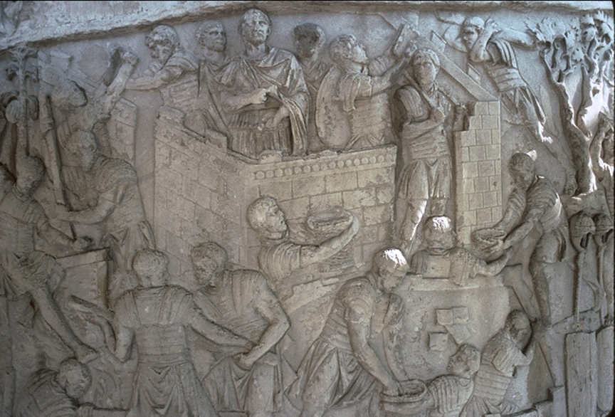 Trajan's Column - Roman Soldiers Building a Fortress